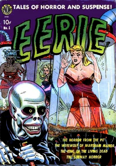 Cover of Eerie No. 1, 1951